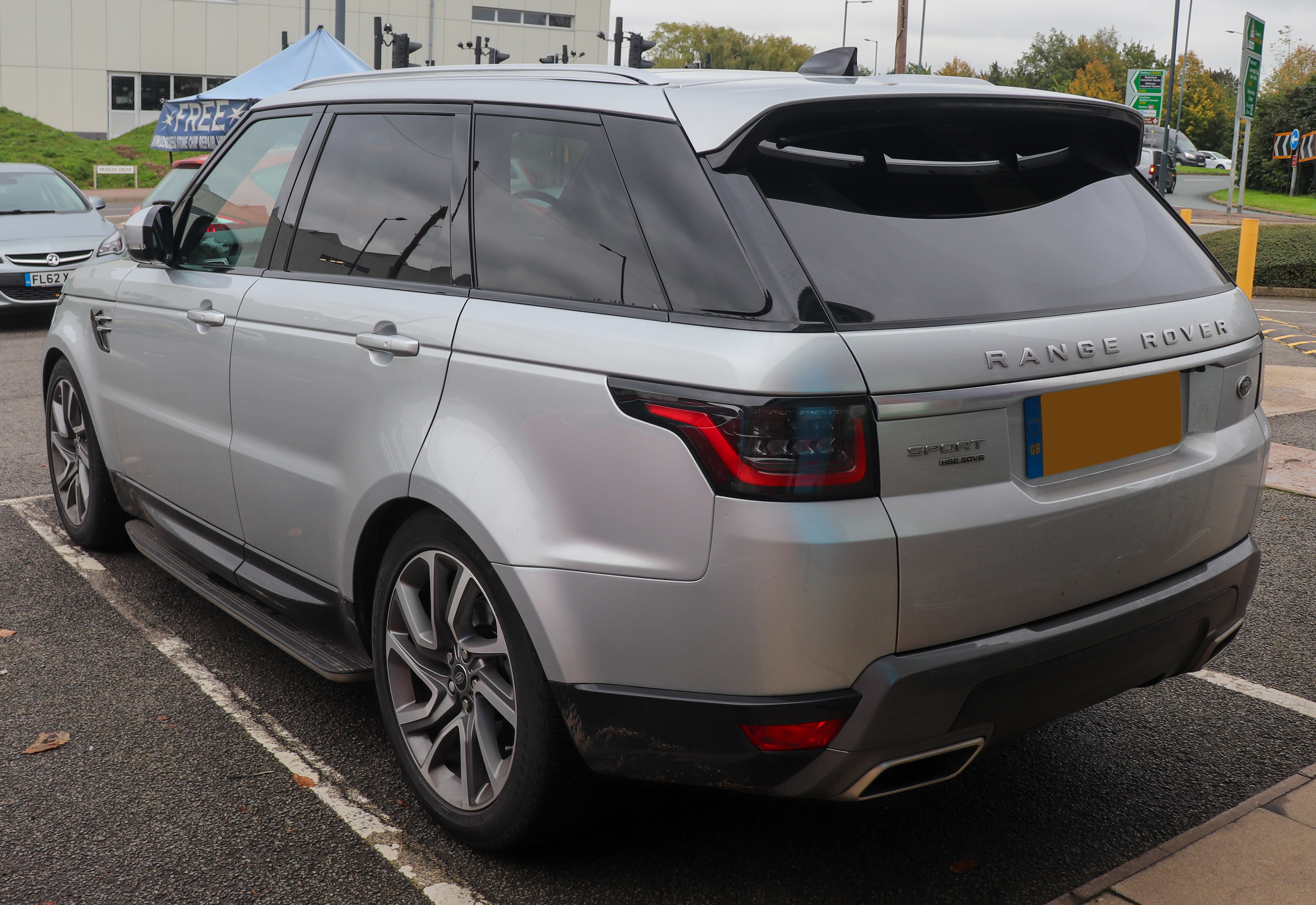 2019 Land Rover Range Rover Sport HSE SDV6 3.0 Rear Taken in Leamington Spa